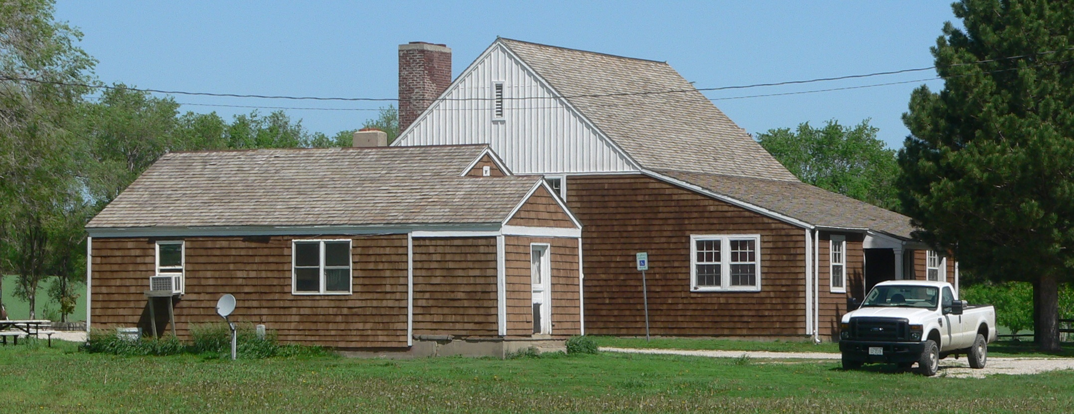 Ponca Tribe of Nebraska community buildings, located at 88915 521 Avenue, south of Niobrara in rural Knox County, Nebraska. Caretaker cottage (left foreground) and main building (right background), seen from the southeast.